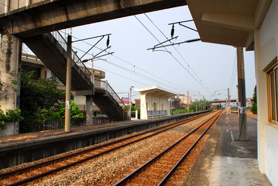 LongGang Station is a small local train station of Taiwan's Western main rail line. It's located within the boundary of HouLong Town, Miaoli County. This photo shows the platforms alongside the main tracks.